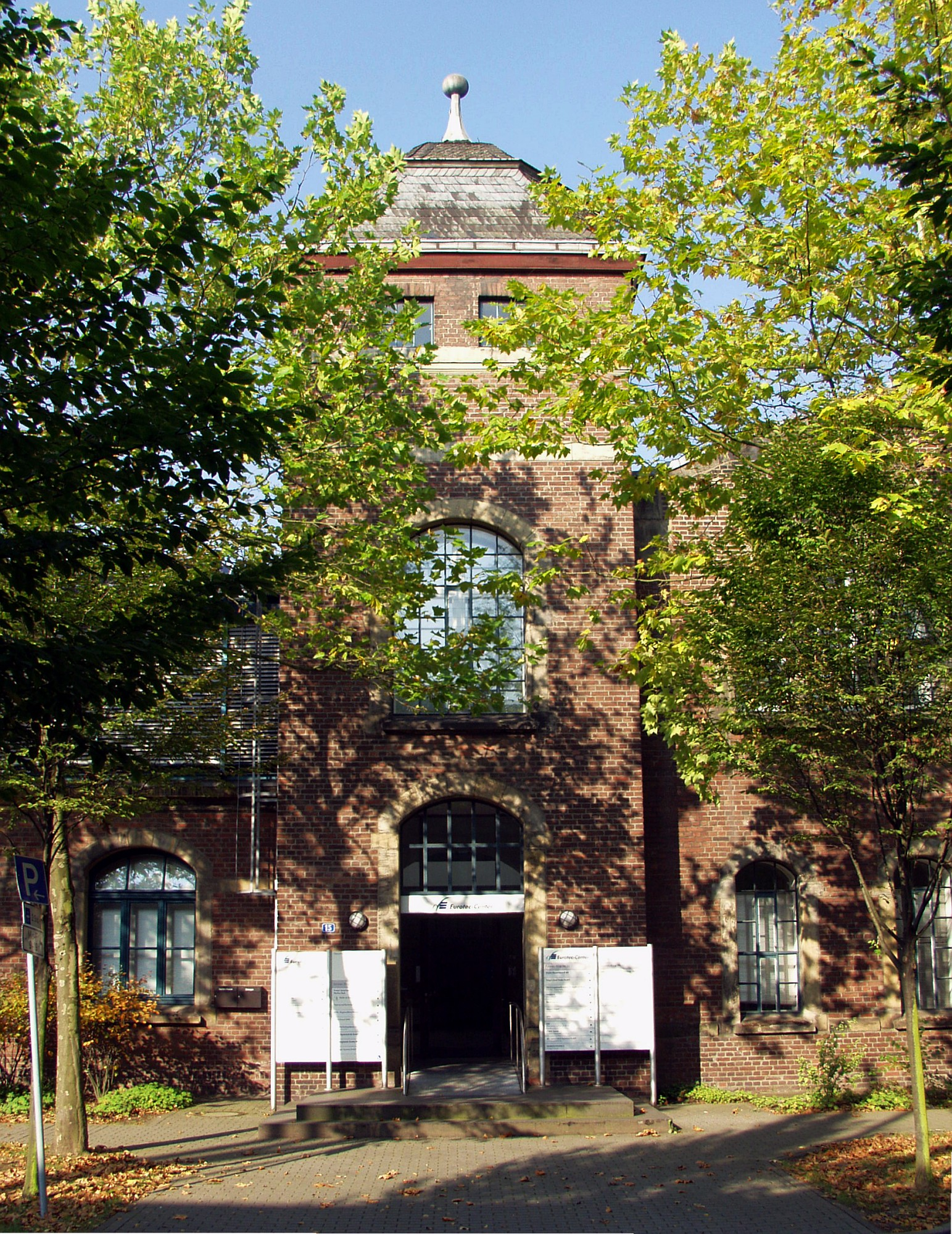 Pithead bath of coal mine "Rheinpreußen", mine shaft no. 5/9 in Moers, Germany